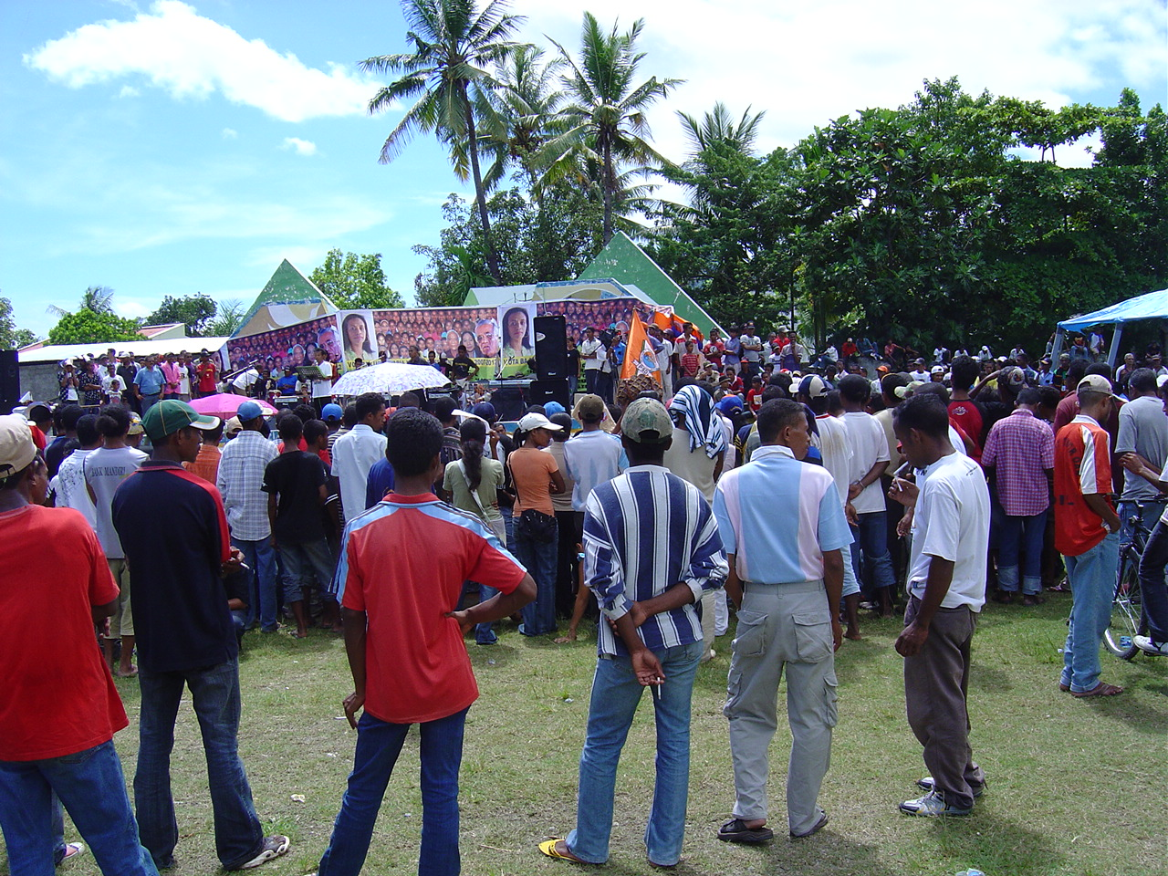 Campaign of Lúcia Lobato, presidential election 2007